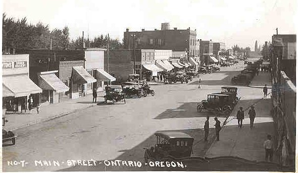 Main Street, Ontario Oregon. Post card view, circa 1920